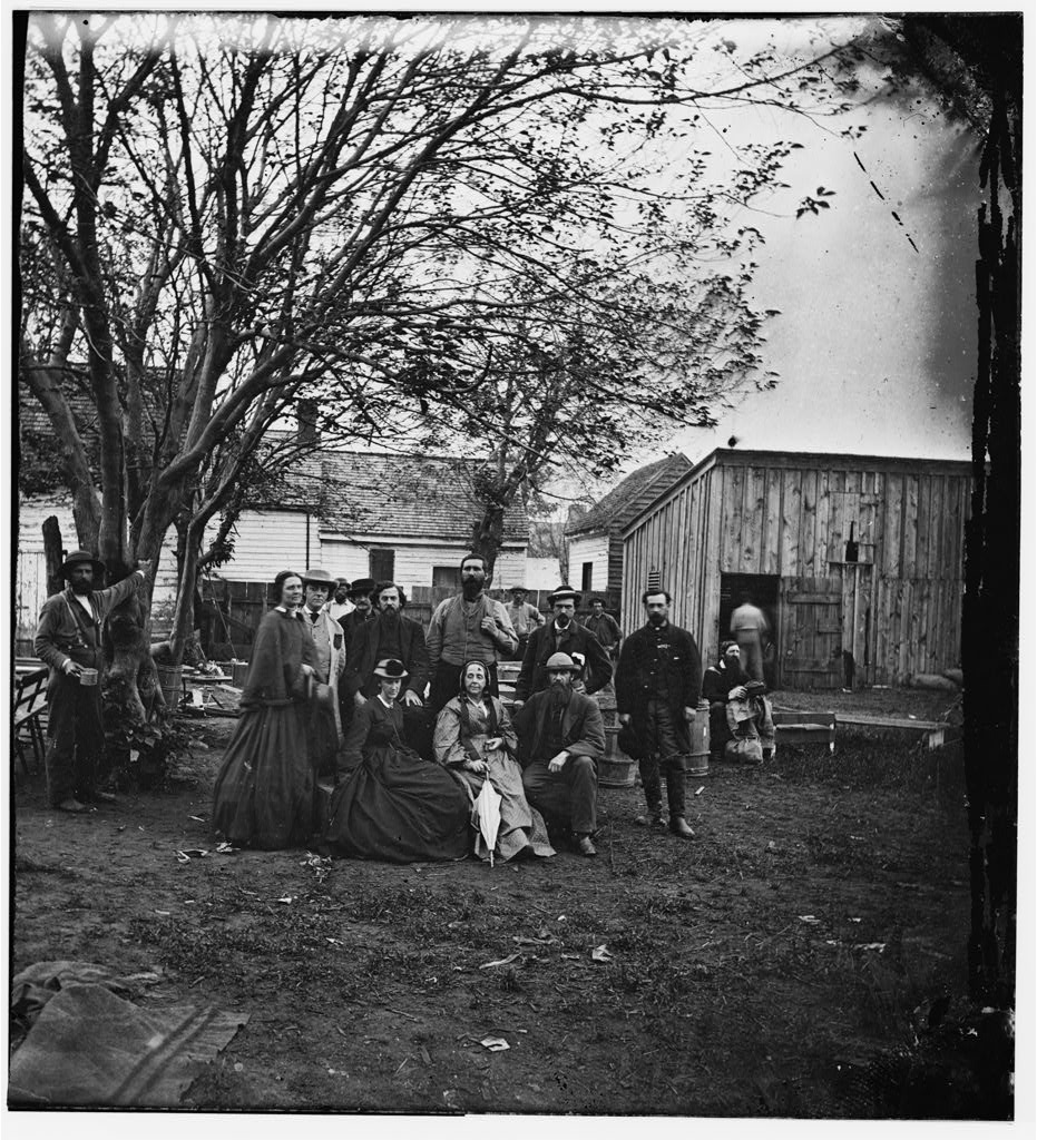 Fredericksburg, Va. - Nurses and officers of the U.S. Sanitary Commission - May 1864 - LC-B811- 741